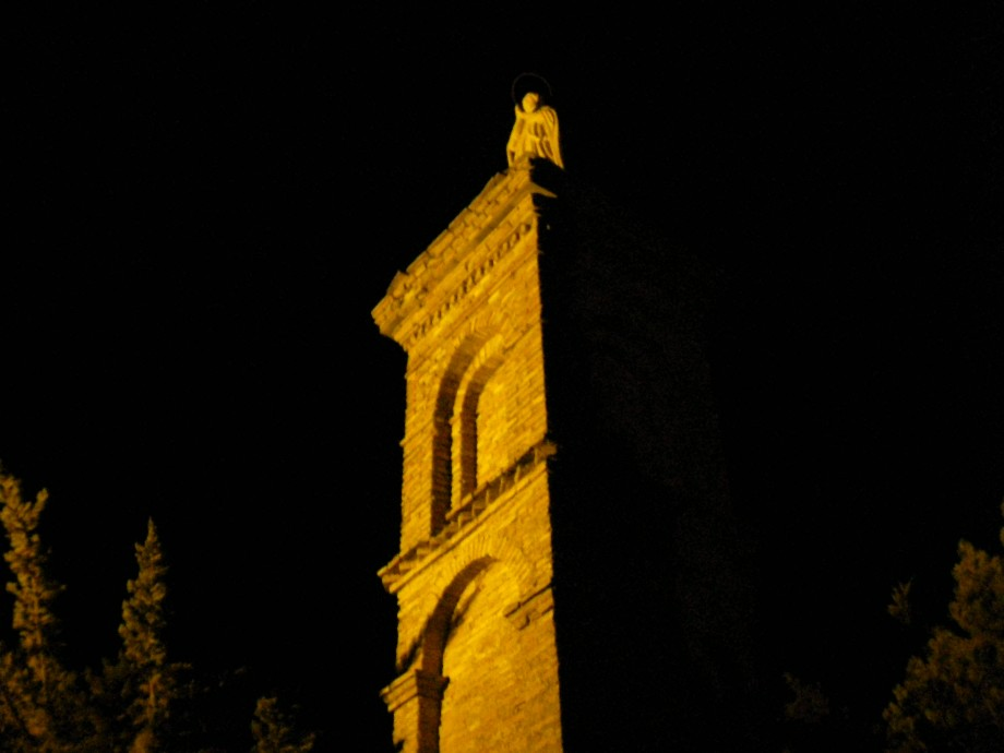 the column with the statue of St. Cristoforo to Atessa by night